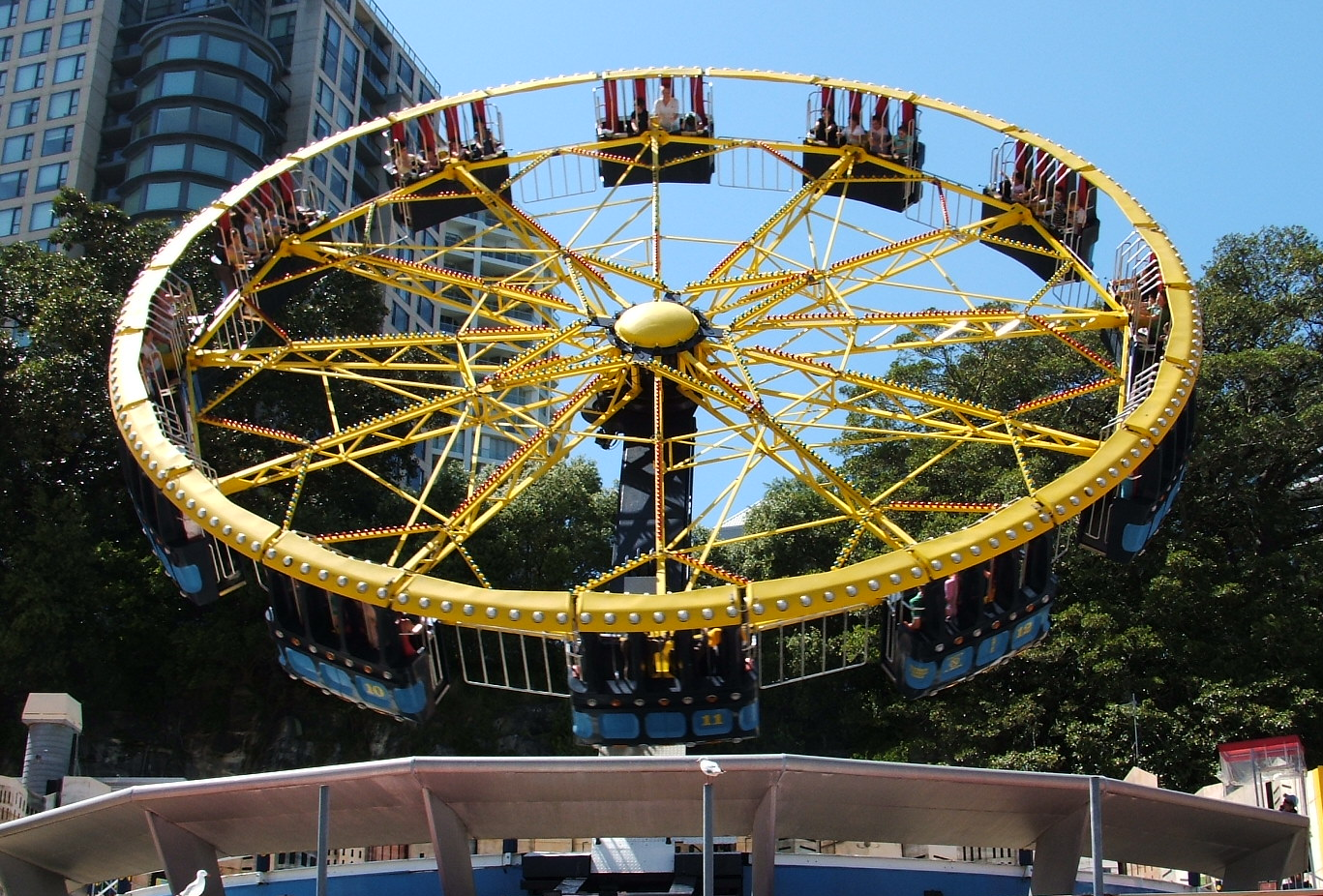 Image of a UFO type amusement ride at half lift (cannot recall if ride is going up or coming down).